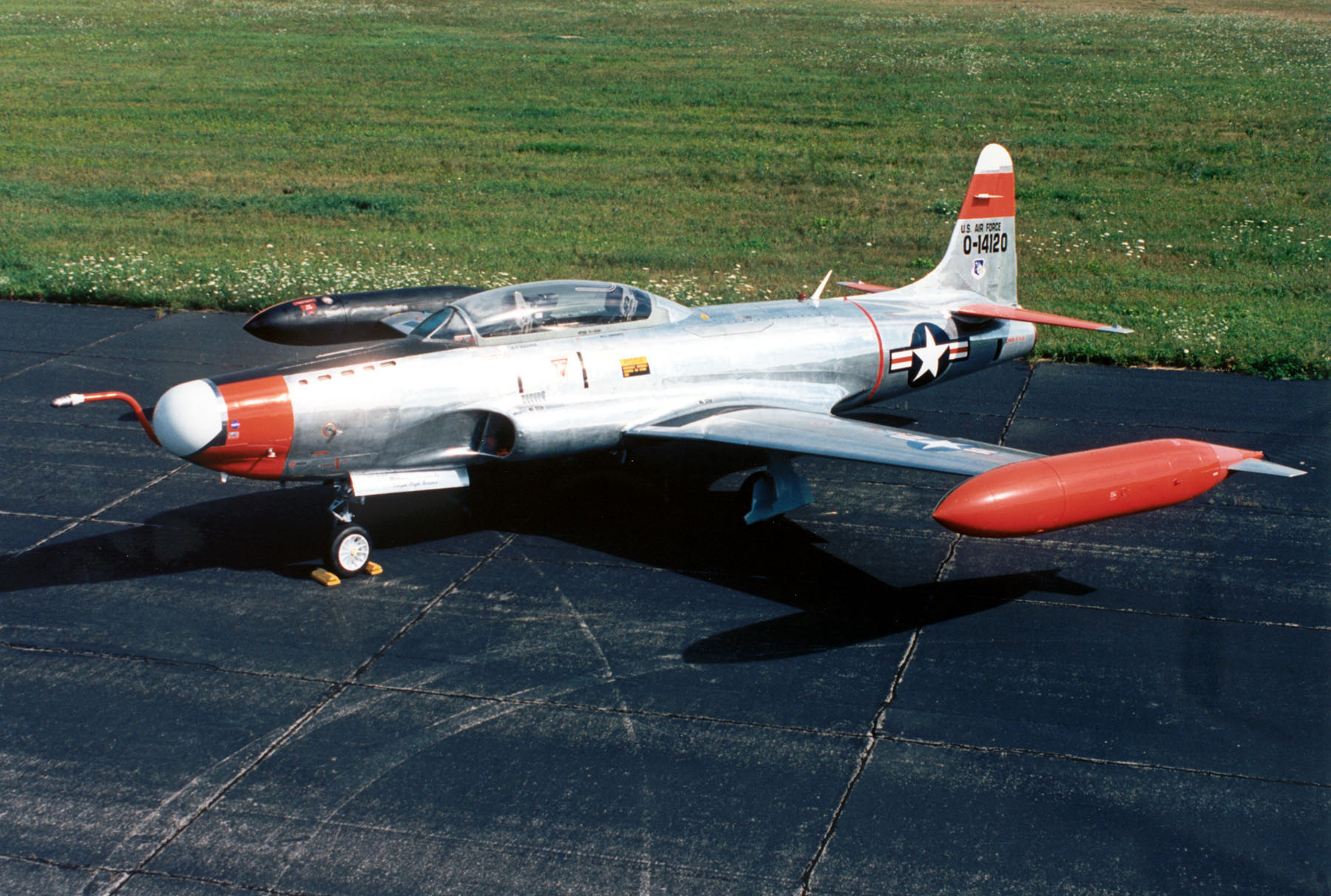 A U.S. Air Force Lockheed NT-33A (s/n 51-4120). This aircraft delivered as an T-33A-1-LO and was converted to an NT-33A with the nose of an F-94A/B Starfire. It was finally retired on 28 April 1997, then being the oldest flying USAF aircraft. It is now on display at USAF Museum at Dayton, Ohio (USA).